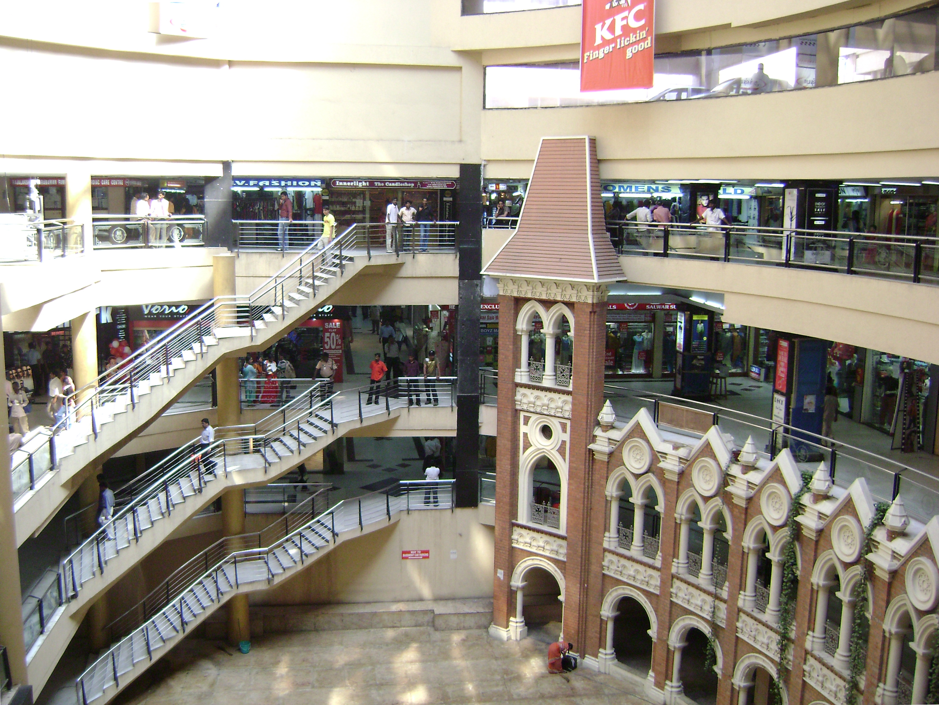 Third phase of Spencer Plaza in Chennai